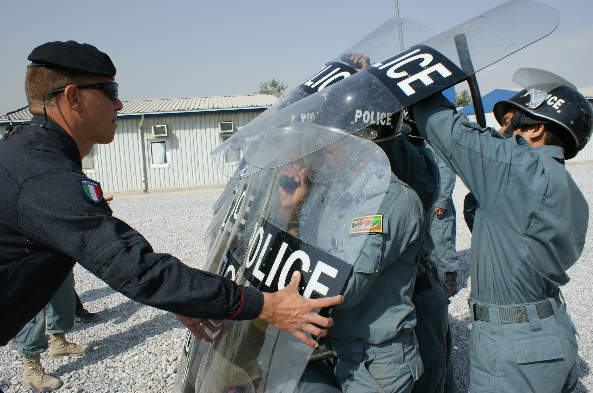 Kabul, Afghanistan (Sept. 29, 2010) Afghan National Police train in search and apprehension techniques with Italian Carabineri advisors from NATO Training Mission-Afghanistan at the Central Training Center. U.S. Navy photo by Chief Petty Officer Brian Brannon